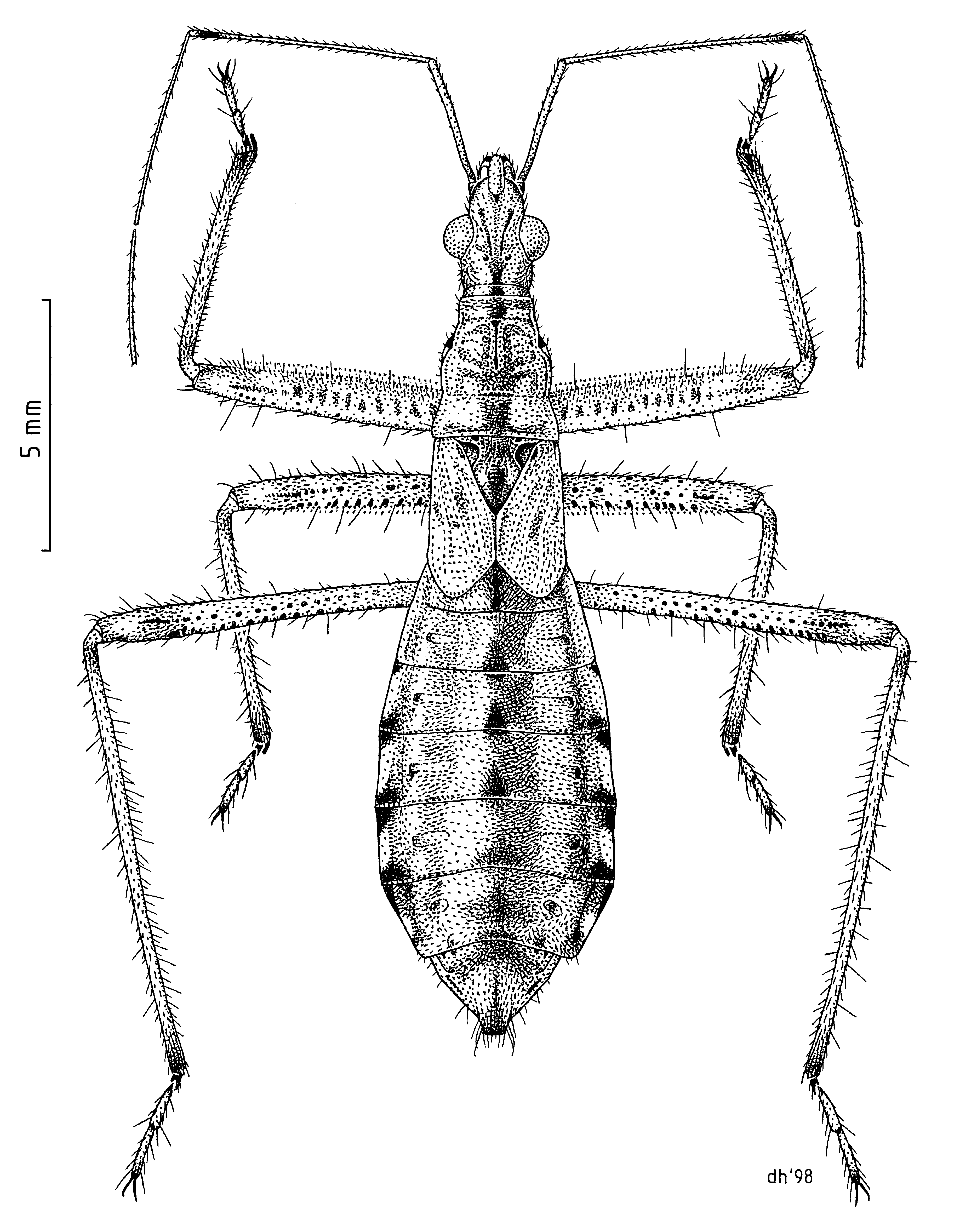 (Hemiptera: Nabidae) Nabis biformis illustrated by Des Helmore.